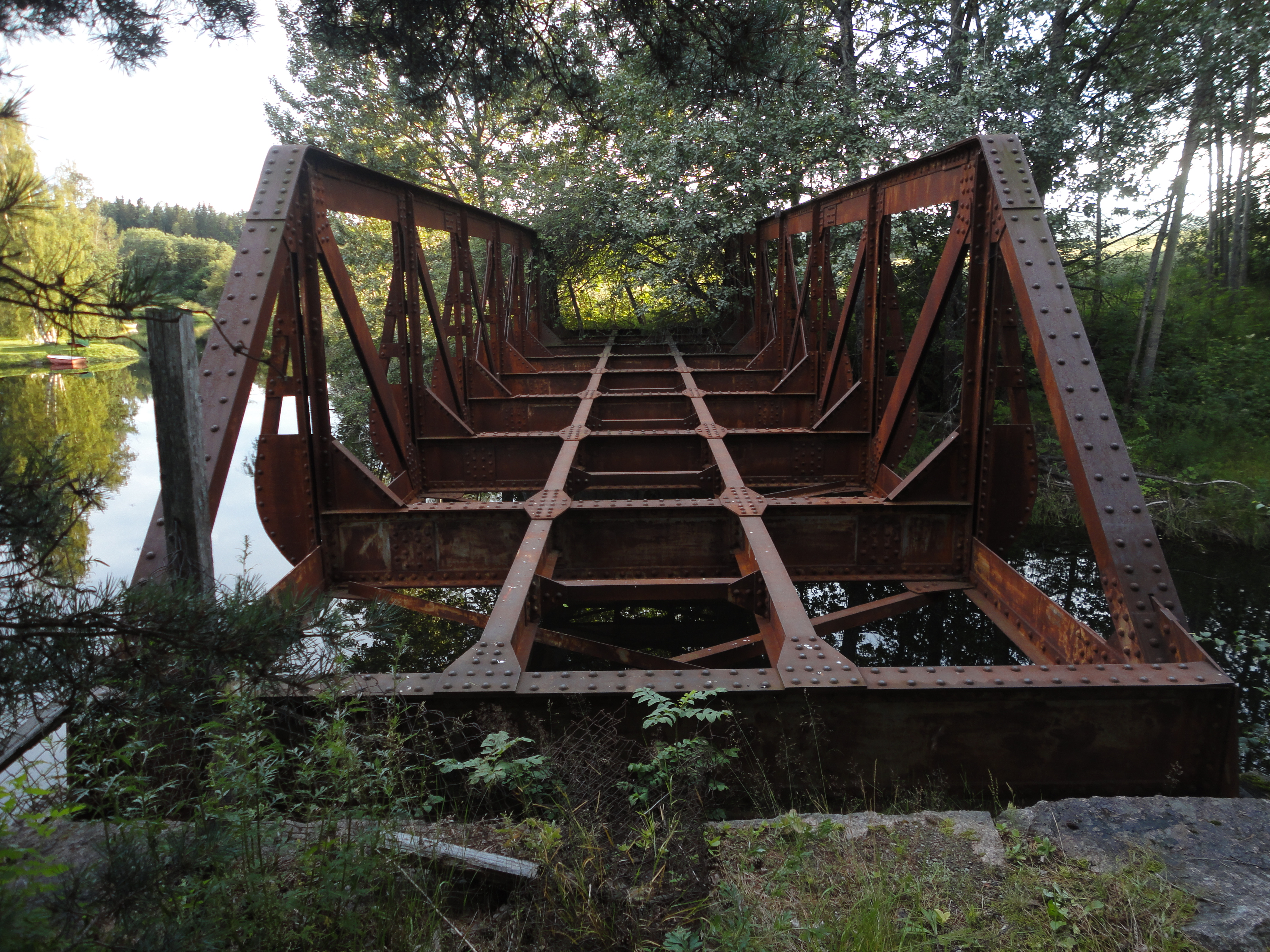 Sundbyfoss railroad bridge in Sundbyfoss, Hof, Vestfold. This bridge was part of the former railroad between Holmestrand, Vestfold and Hvittingfoss, Kongsberg, Buskerud and the former railroad between Tønsberg, Vestfold and Eidsfoss, Hof, Vestfold.